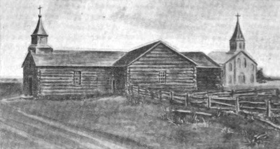 Catholic church, 1851, St. Mary's, Kansas, USA